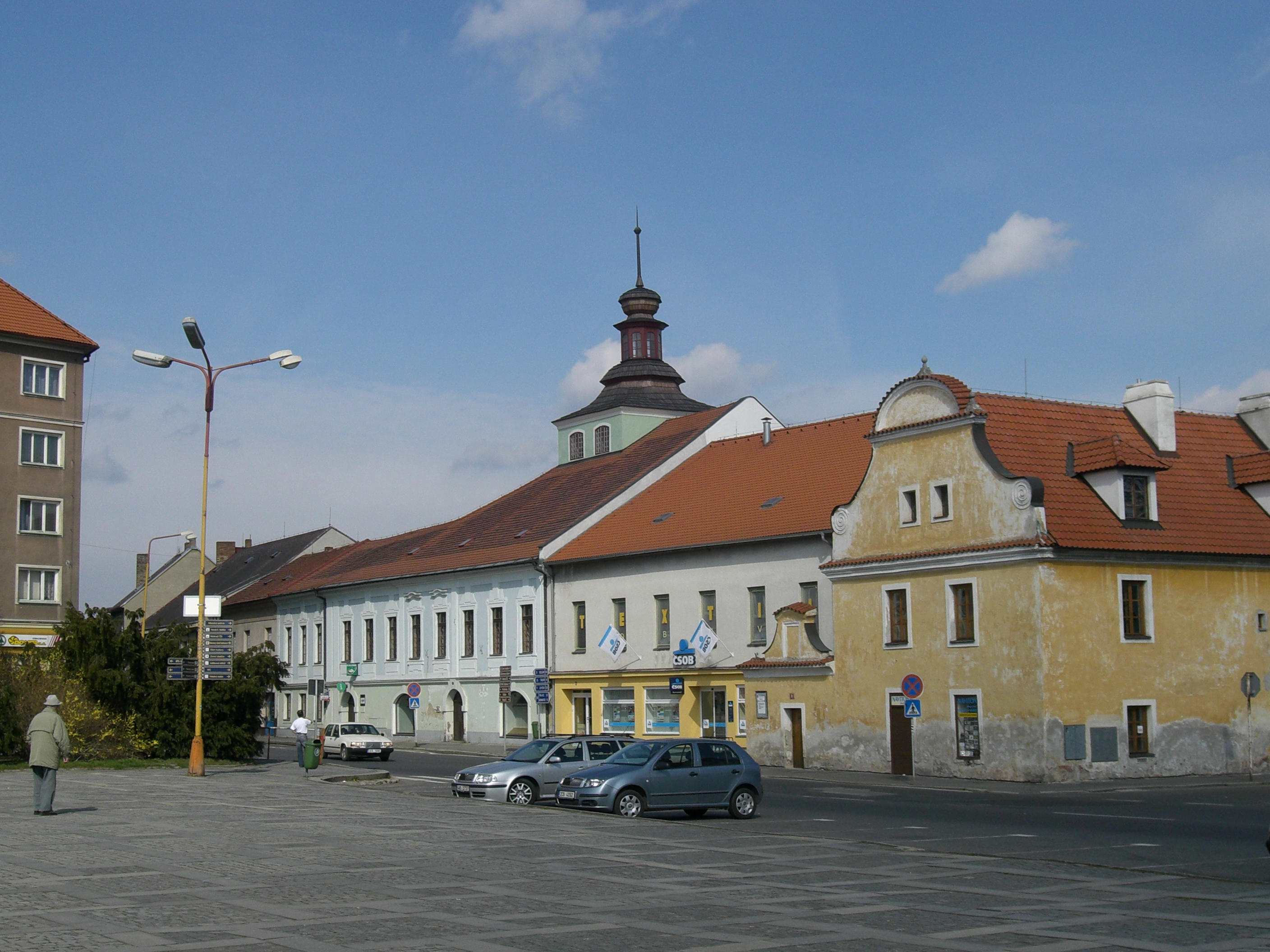 Milevsko Town in the Písek district, Czech Republic. Squere of Edvard Beneš.